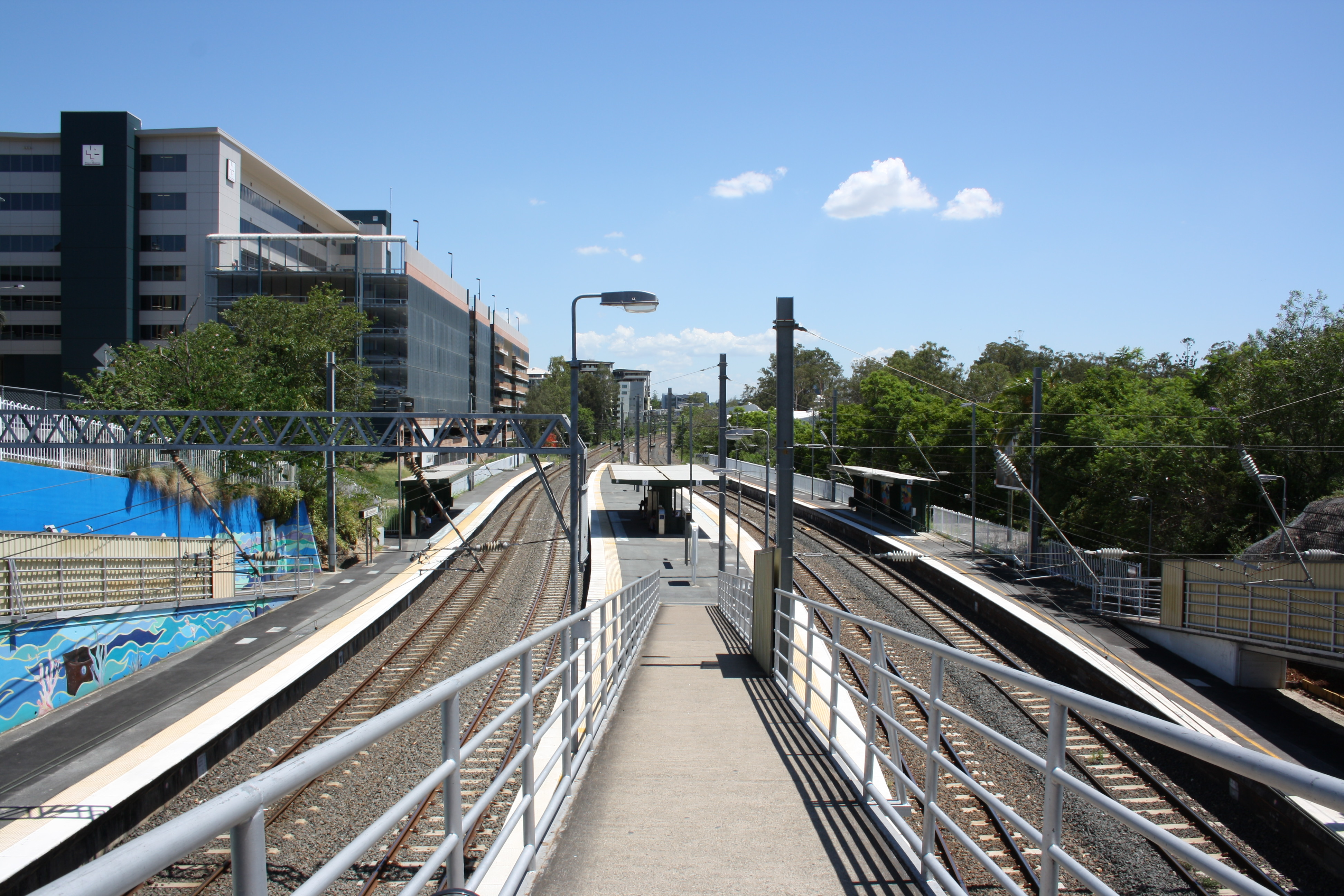 Auchenflower railway station, Brisbane, Australia. Looking from the pedestrian ramp to the platforms below. The Wesley Hospital can be seen to the left.